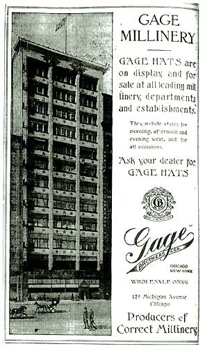 Source from